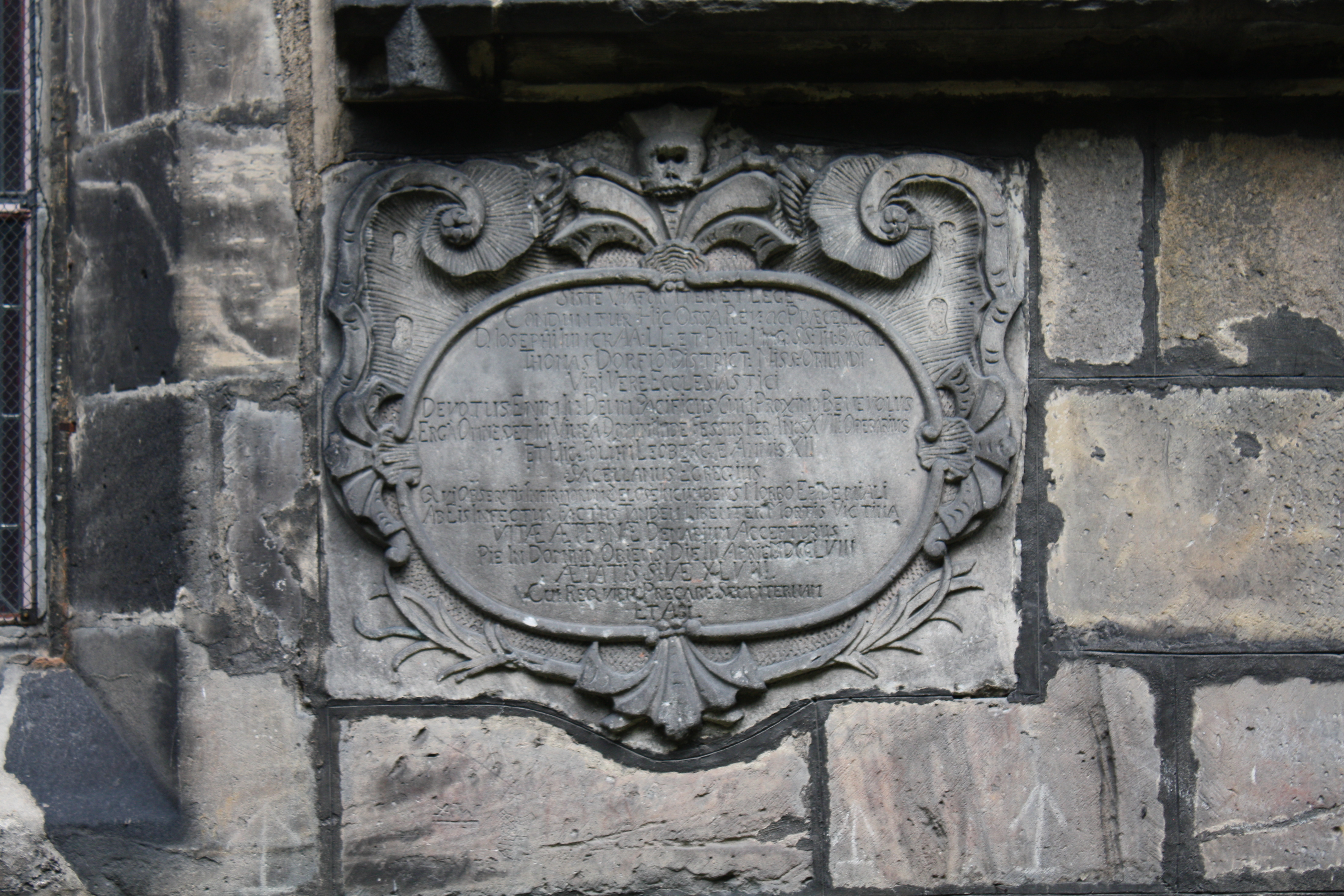 This photo of Lower Silesian Voivodeship was taken during Wikiexpedition 2013 set up by Wikimedia Polska Association. You can see all photographs in category Wikiekspedycja 2013. English | Polski | +/−